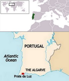 Map showing the location of Praia da Luz in Portugal, including an inset displaying the geographic location of Portugal.